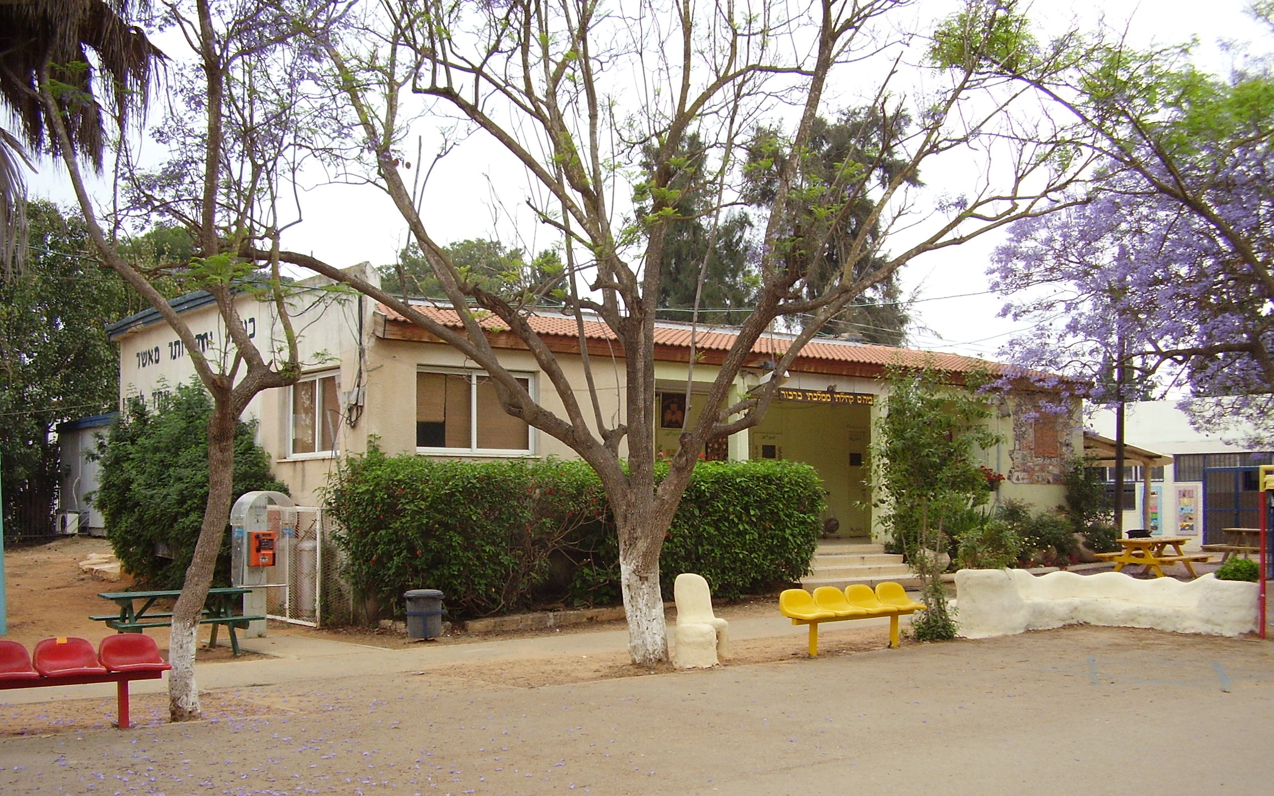 The Karkur primary school, Israel